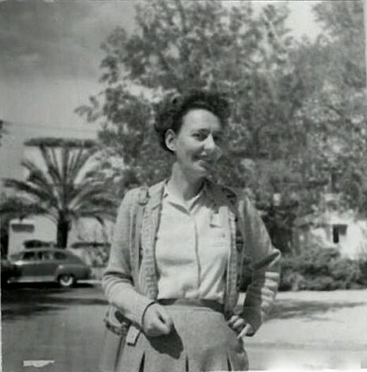 Leah Goldberg in Jerusalem